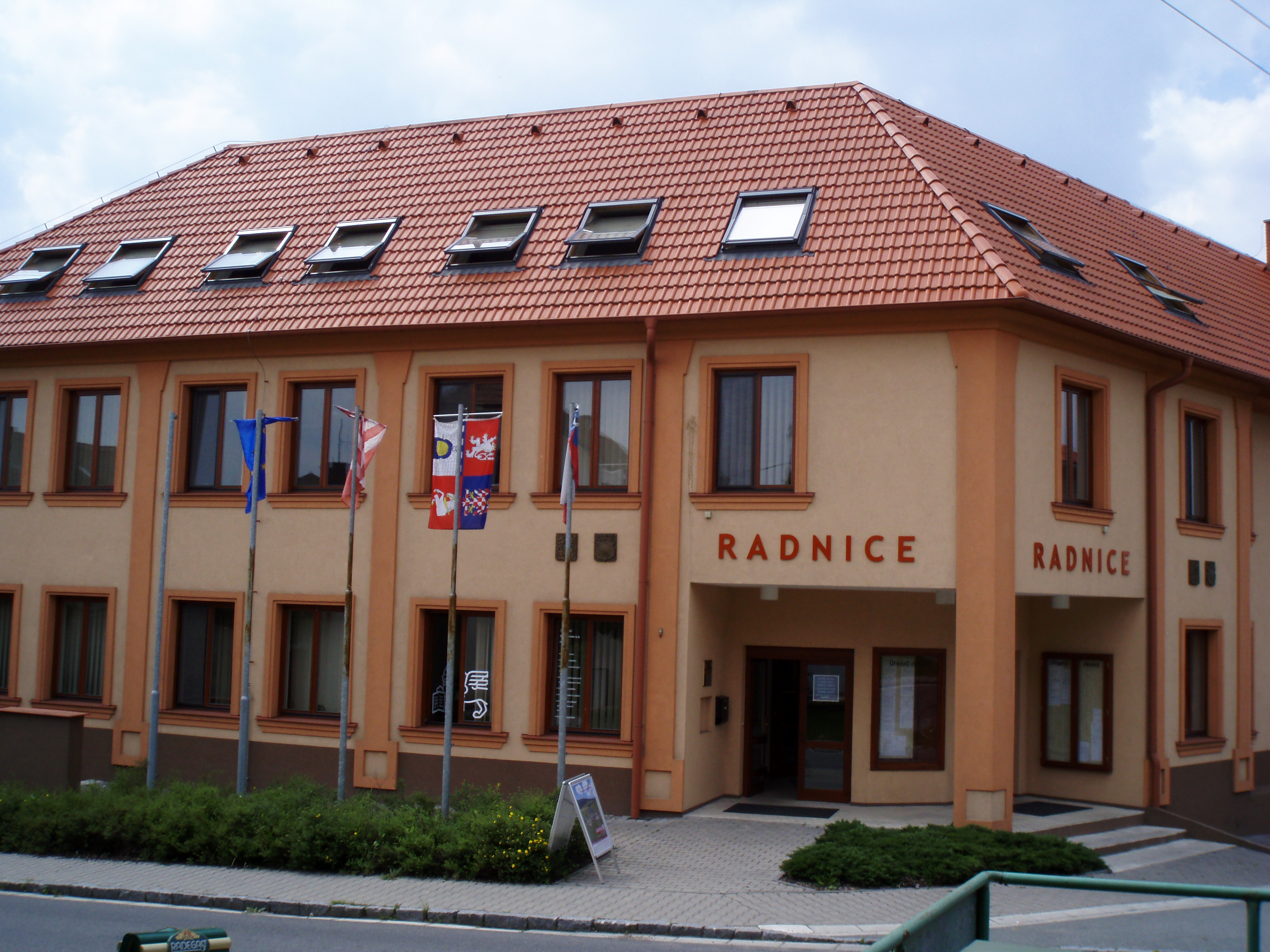 New Town Hall in Sezemice, Pardubice District, Czech Republic